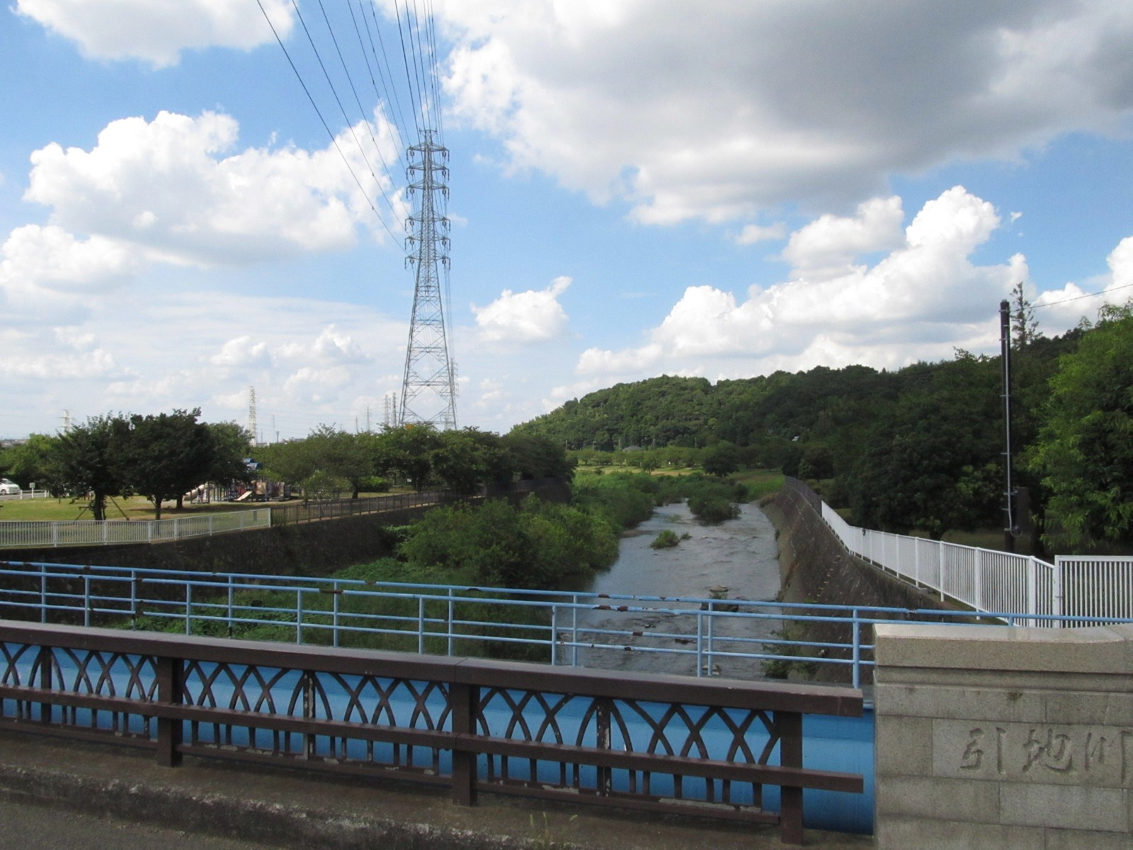 Hikijigawa Shinsui Park in Fujisawa City, Kanagawa Prefecture, Japan